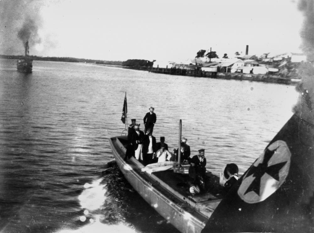 Midge (ship)